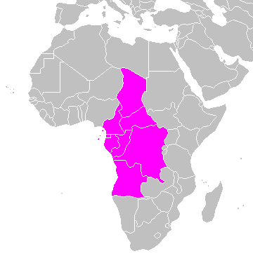 The map of Middle-Africa region.